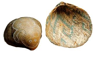 Pre-Columbian Hohokam culture art — shells etched with fermented saguaro juice which acted like an acid on the parts of the shell that had not been coated with wax or pitch.